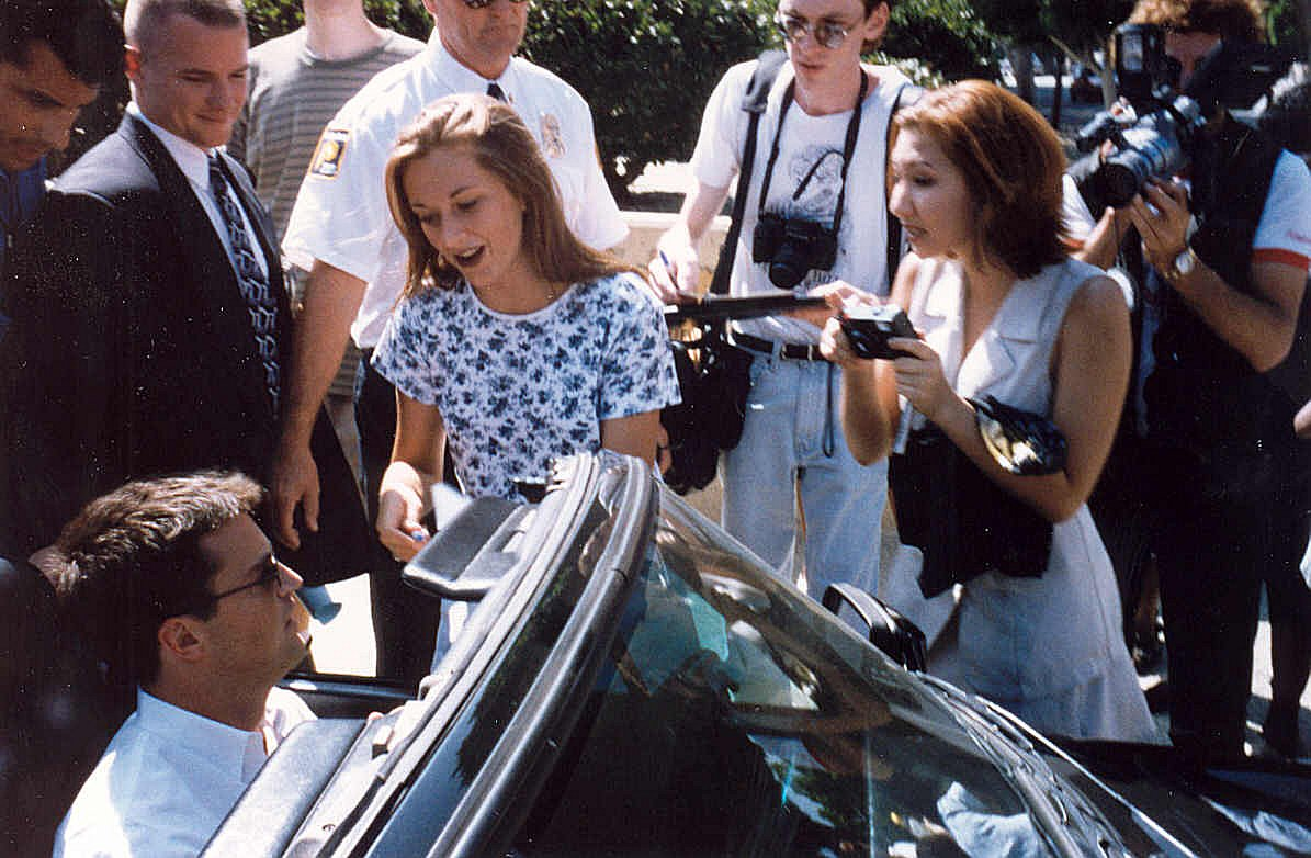 Actor Matthew Perry pictured in September 1995, surrounded by fans and parrazzi